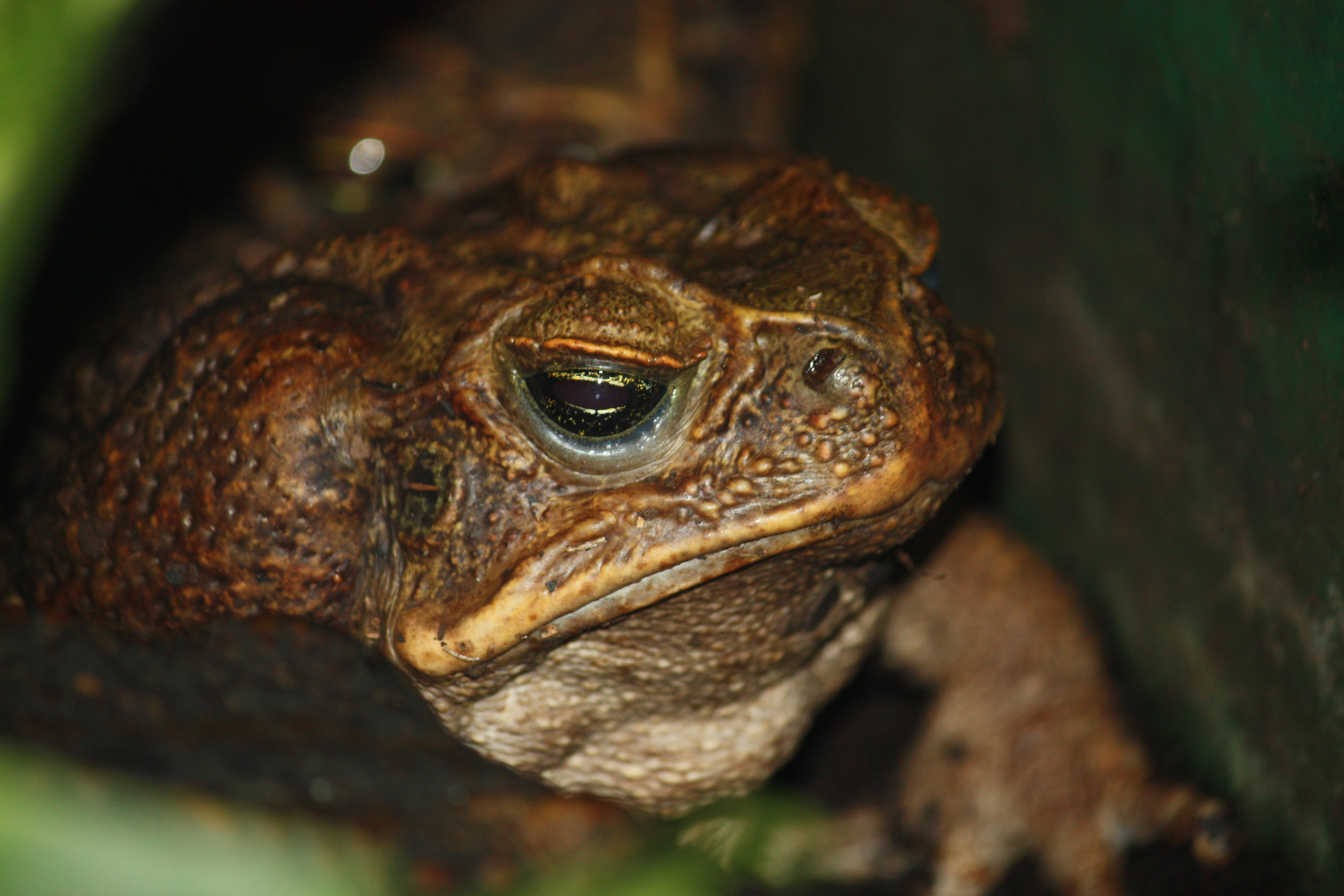 Cane Toad (Bufo marinus) at Louisville Zoo